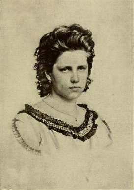 Photograph of Tereza Macháčková (died September 12, 1865), a fiancé of Jan Neruda (1834-1891)